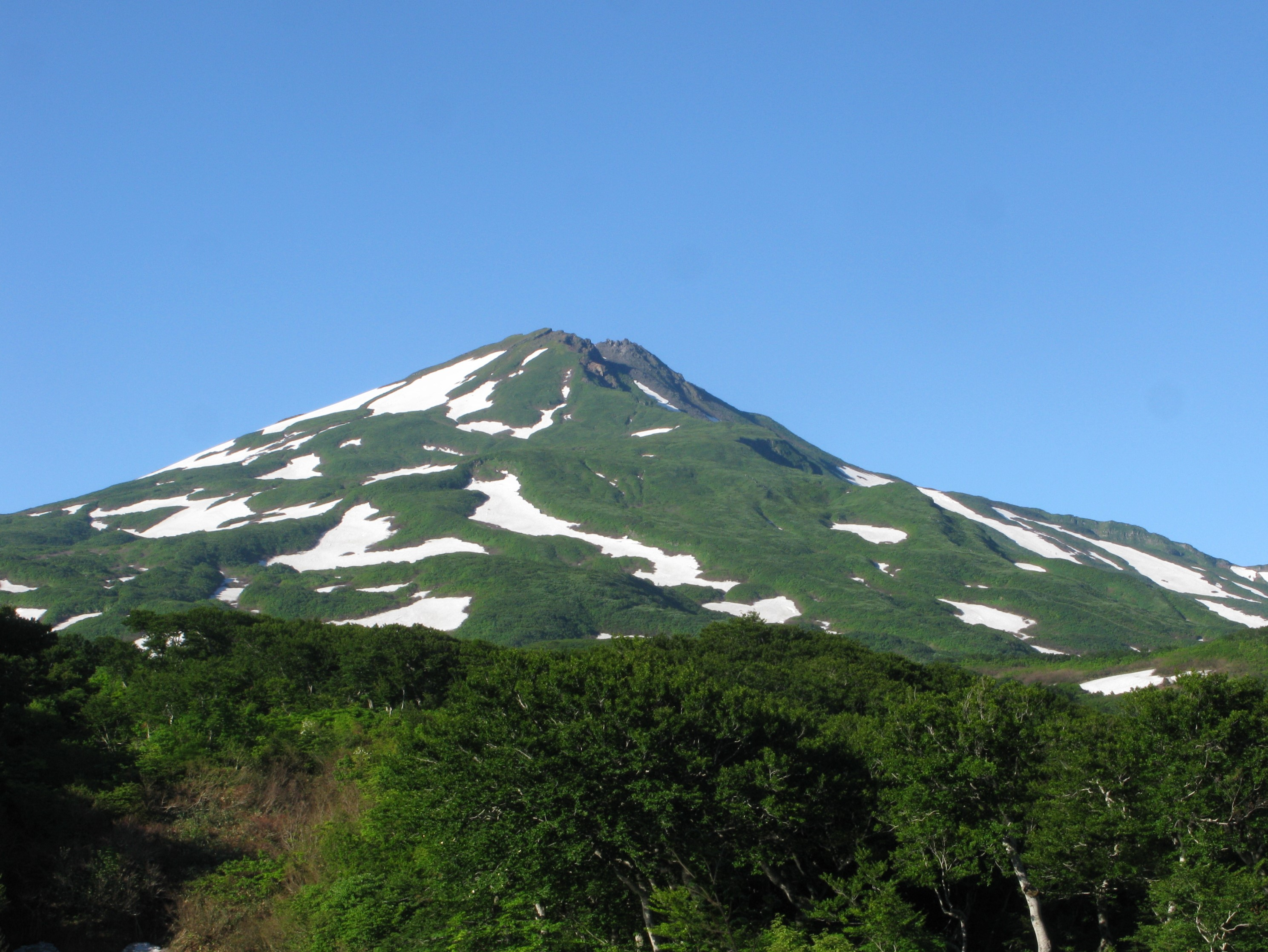 Mount Chōkai, Yuri-honjo city, Akita pref., Japan